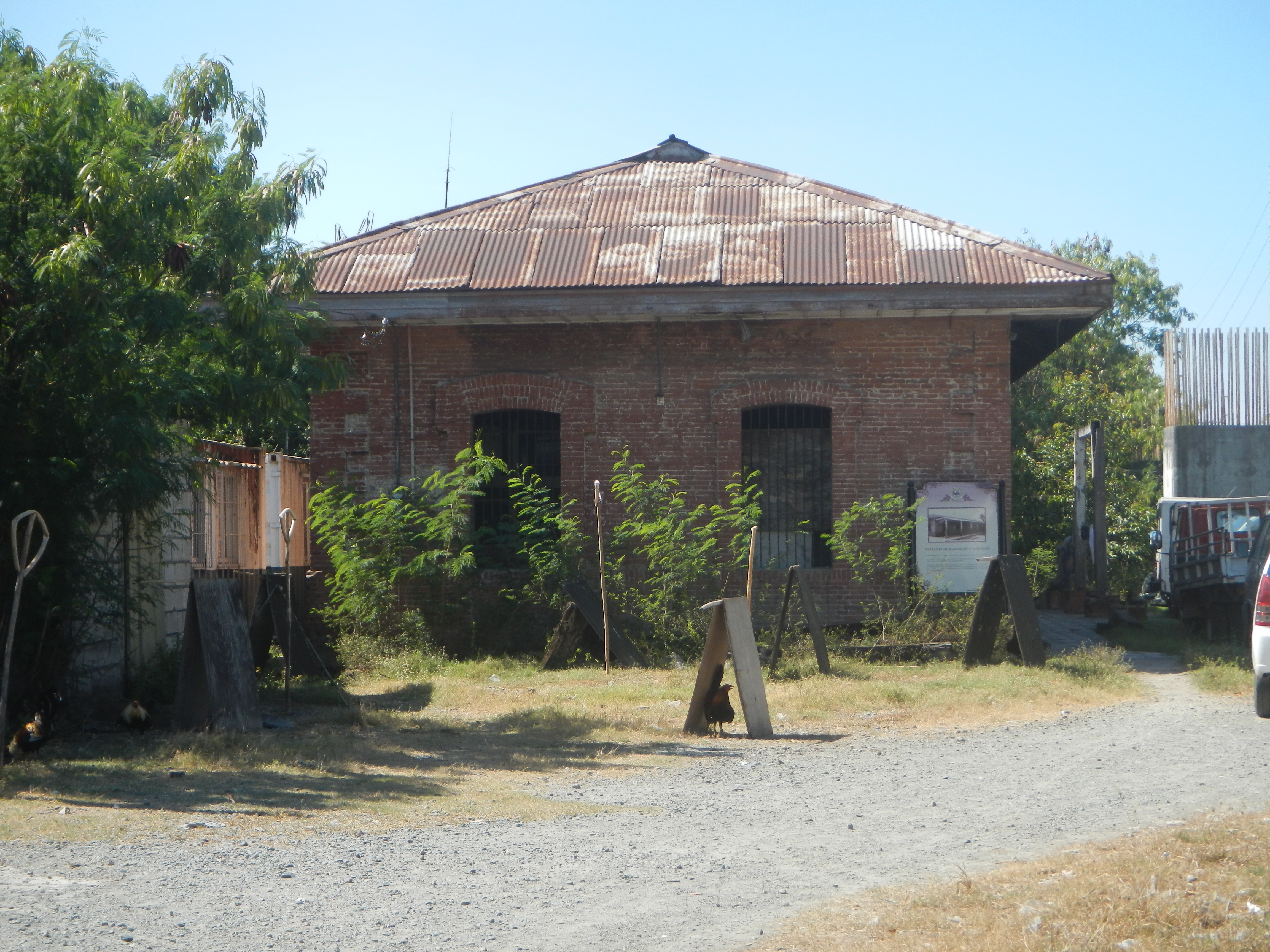 Estacion de Barasoain Y Malolos (Malolos railway station) Malolos railway station is the terminus for the Northrail rehabilitation project Phase 1 in the Philippines opened on March 24, 1891 Estacion de Barasoain Y Malolos in front of Holy Trinity Catholic Chapel (Catmon, Malolos City, Bulacan) are located in in Barangay Catmon, and Guinhawa, Malolos City, Bulacan (along MacArthur Highway or Manila North Road (Note: Judge Florentino Floro, the owner, to repeat, Donor Florentino Floro of all these photos hereby donate gratuitously, freely and unconditionally all these photos to and for Wikimedia Commons, exclusively, for public use of the public domain, and again without any condition whatsoever).